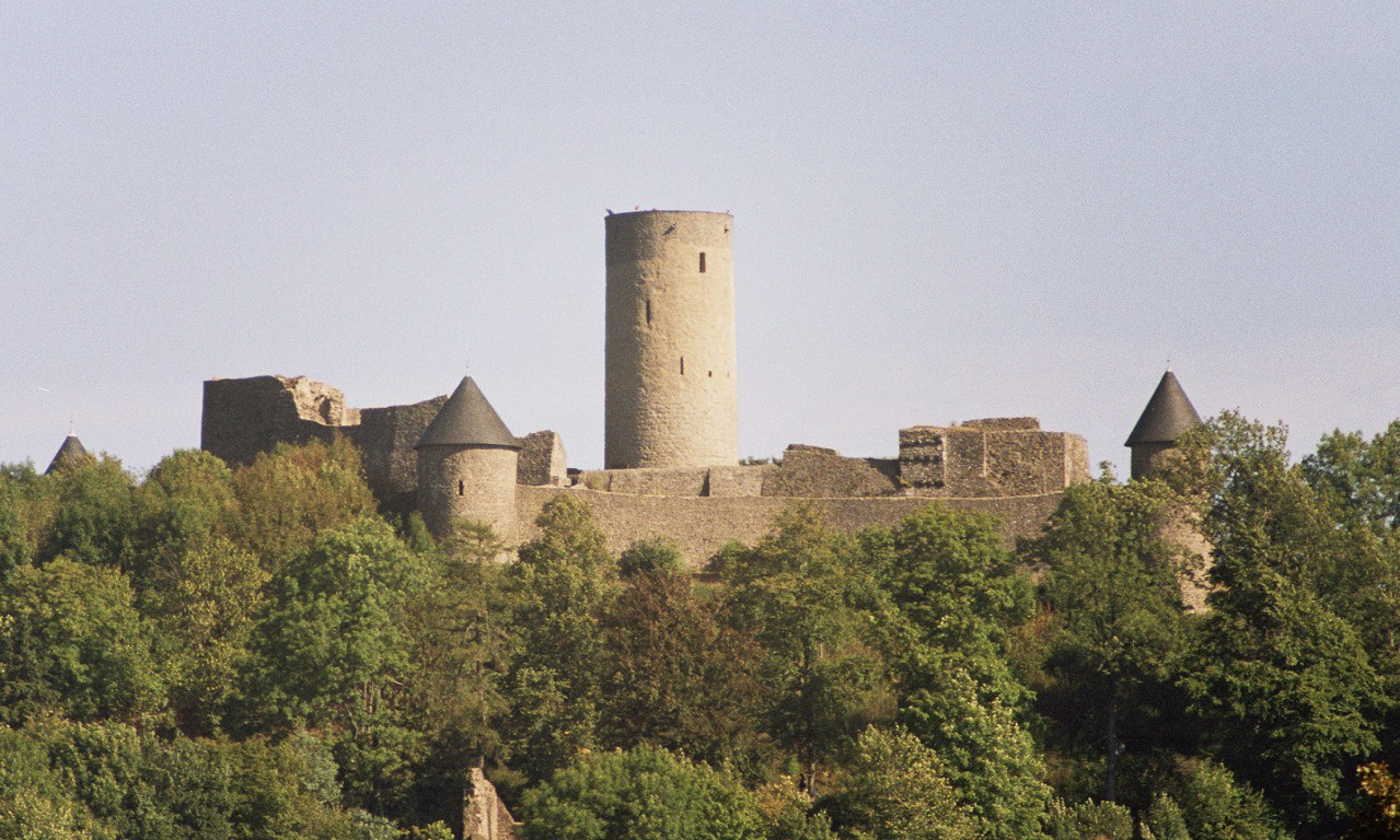 The ruins of Nuerburg Castle